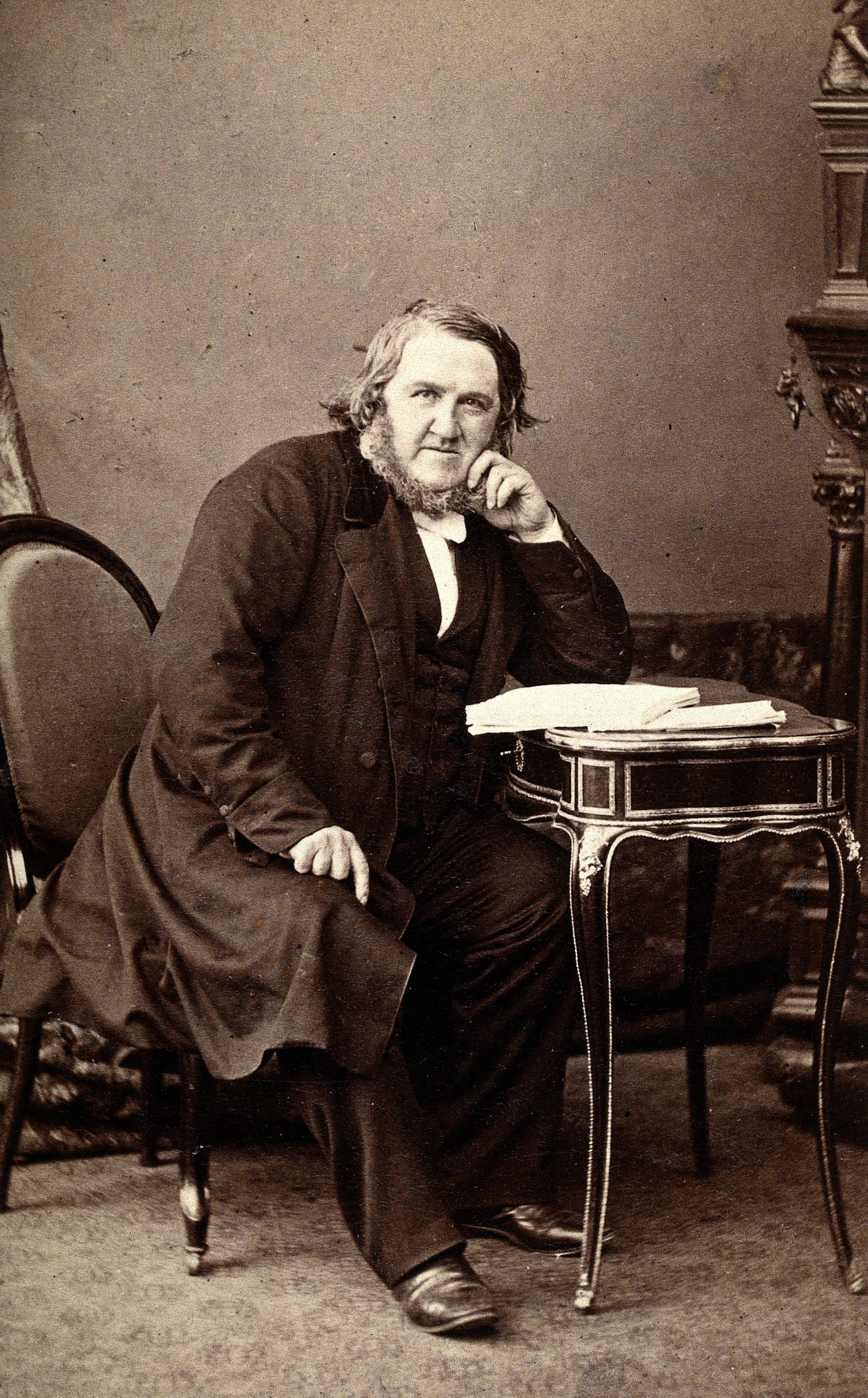 Sir James Young Simpson. Photograph by Bingham. Iconographic Collections Keywords: portrait photographs